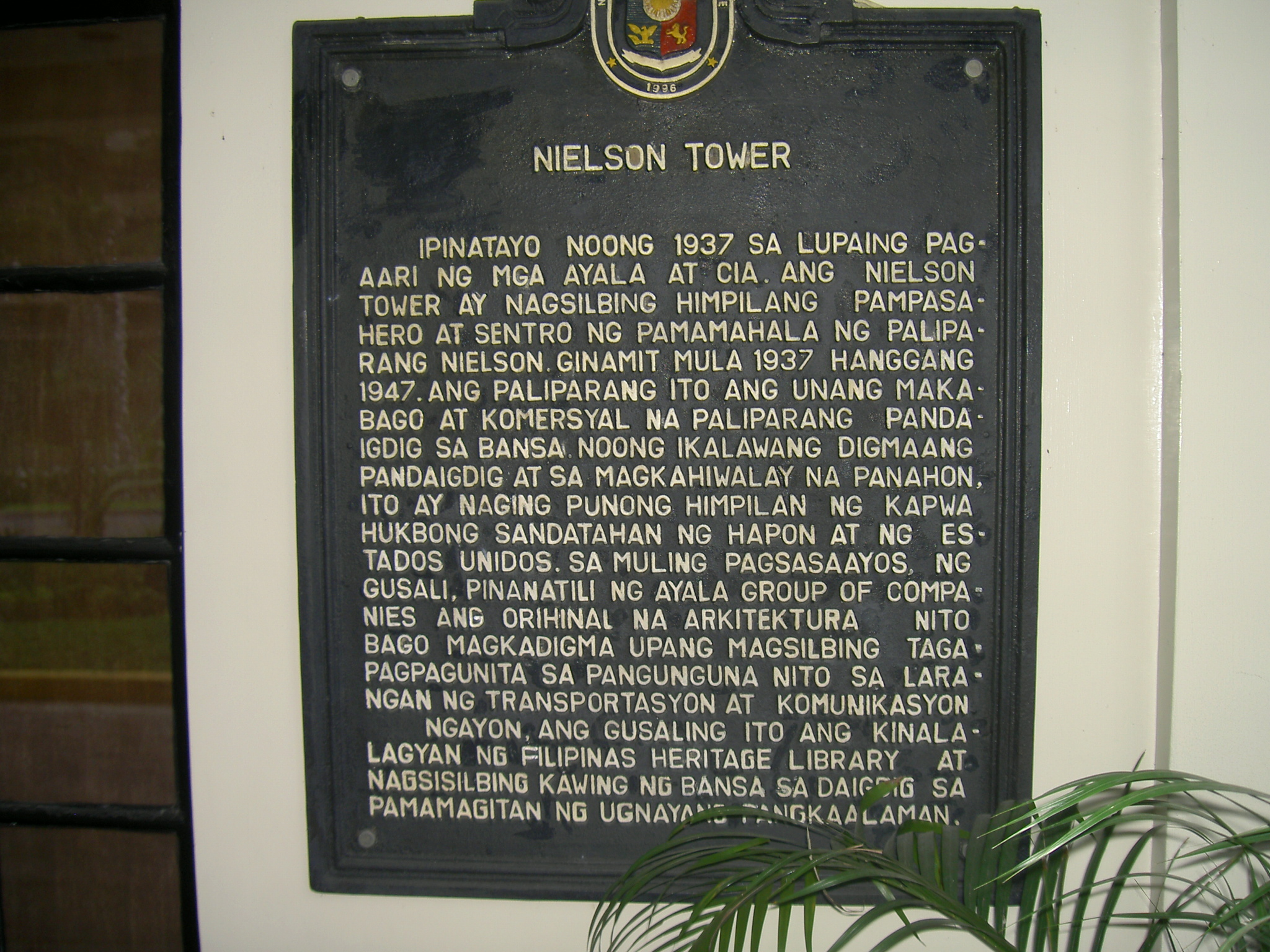 Plaque on the Nielson Tower, Ayala Triangle Park, Makati City. The plaque translates: Built in 1937 on land owned by Ayala and Cía. Nielsen Tower served as the center management for the transit of passengers at Nielsen Air Base. It was used from 1937 to 1947. This airport was the first world-class, modern and commercial international airport in the Philippines in World War II, and on separate occasions, was used by the armed forces of Japan and the United States. In renovations, the Ayala Group of Companies retained the original pre-war architecture to serve as reminder to its leadership in the fields of transportation and communication. Today, this building is the location of the Philippine Heritage Library, and it serves to link the country in knowledge and relation.